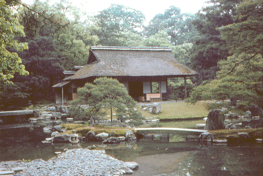 One of the buildings in Katsura Imperial Villa. The villa was established in the early 1600s.